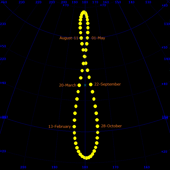 Midday Sun at interval of 6 days from 20th March 2016 to 15th March 2017, at 45 degree N, without refraction correction, with azimuthal coordinate line, in azimuthal equidistant projection.